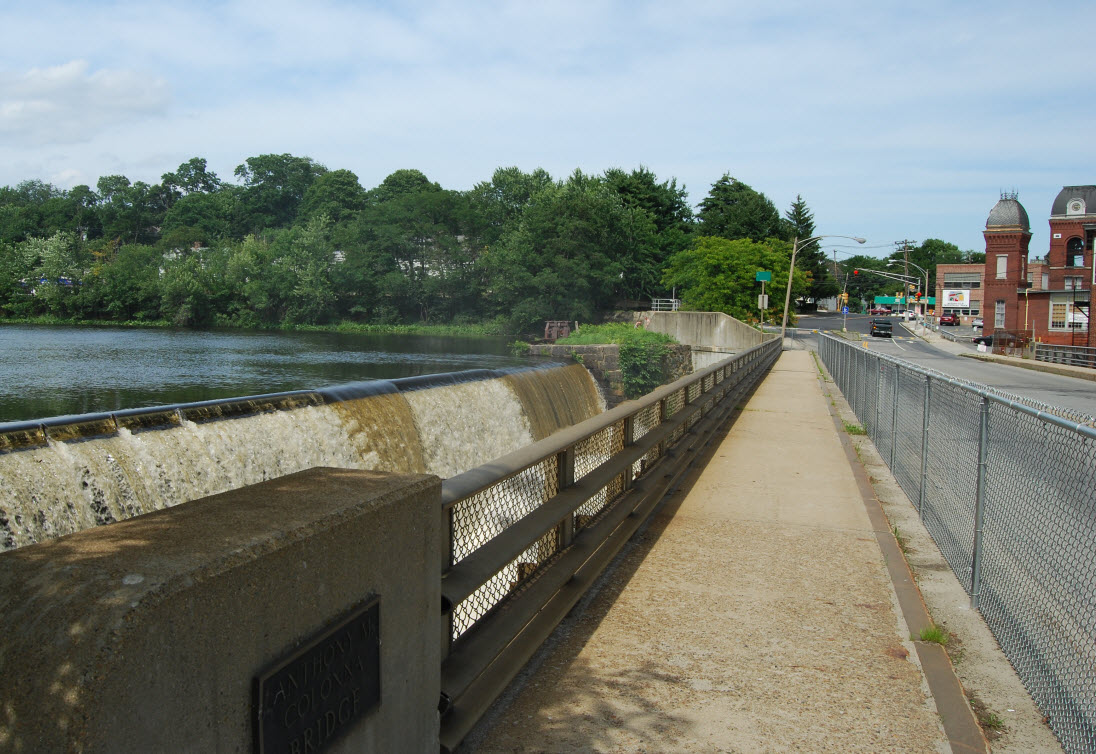 Dam on Sudbury River at Saxonville, Massachusetts (a village of Framingham)